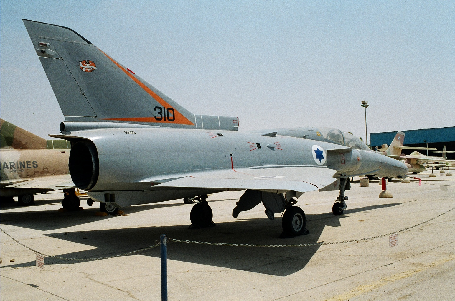 Kfir TC.2 at the Israeli Air Force in Hatzerim. Bears Flight Test Center markings.